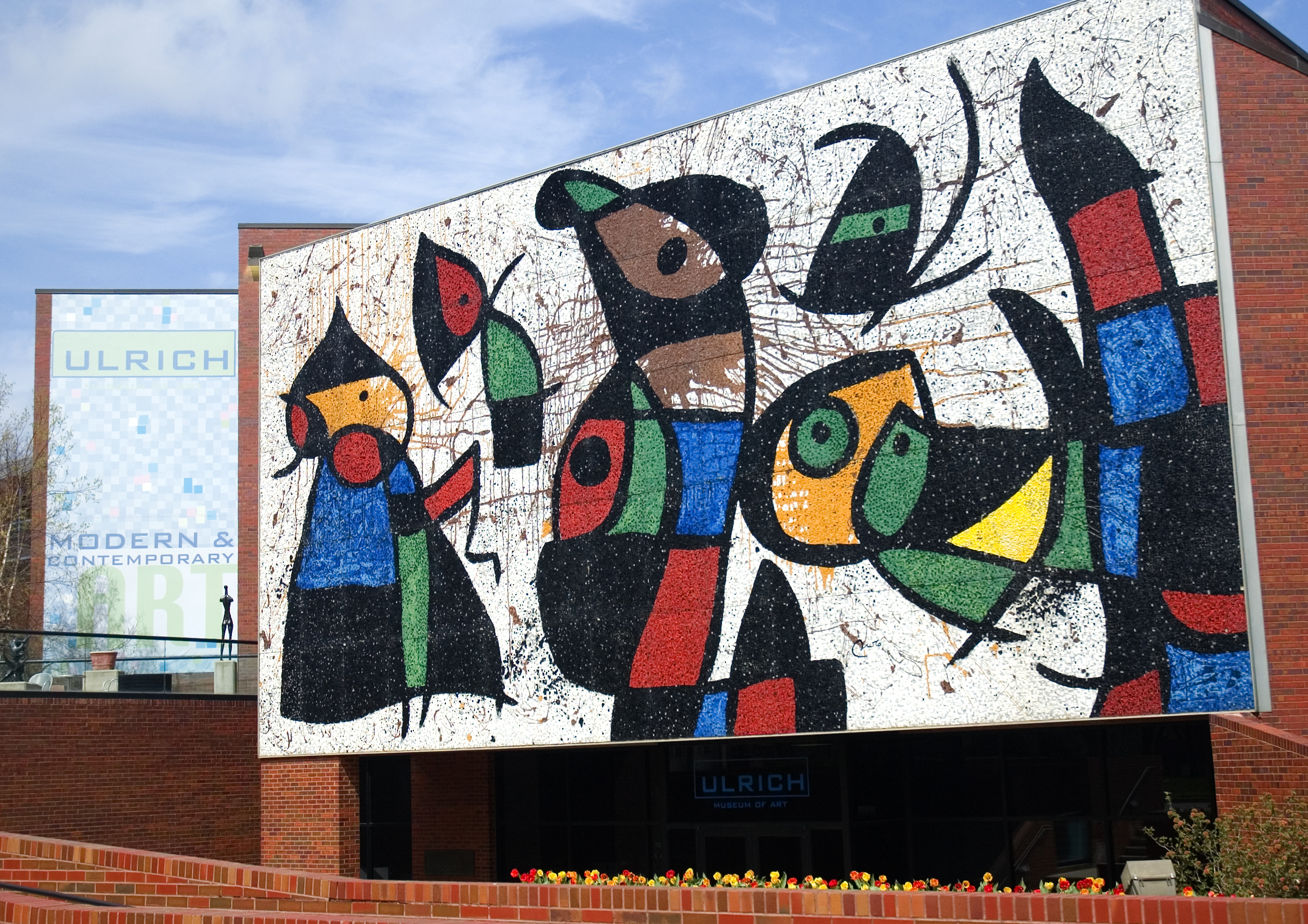 Personnages Oiseaux Joan Miro - 1978 Blue skies finally poked through the clouds today. This is a picture I've wanted for a while but resisted taking so I could get a blue sky. This is the Edwin A. Ulrich Museum of Art at Wichita State University. This picture was partially inspired by a similar photo by kawwsu29.